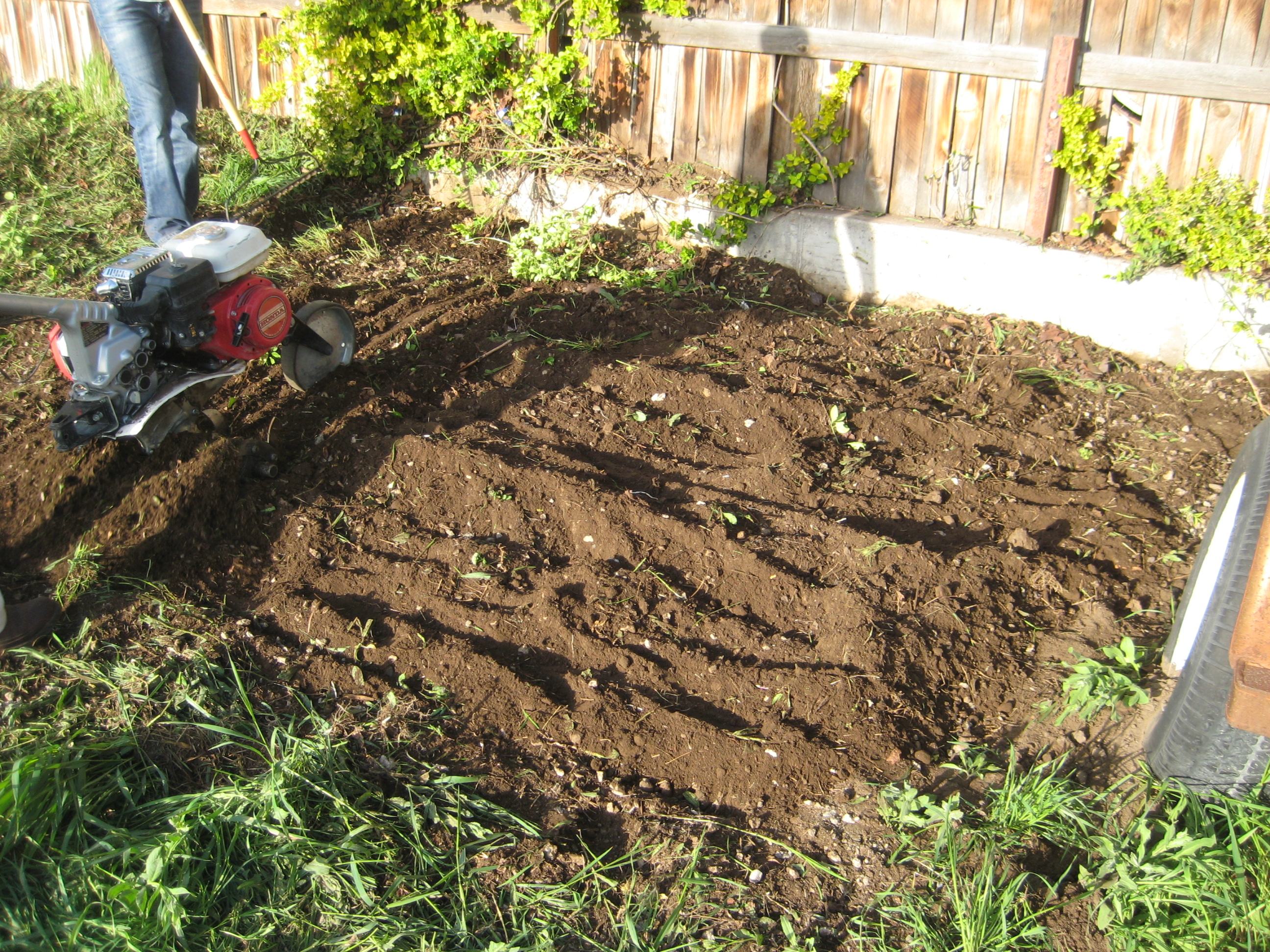 Part of the land of "The Gardens of Alta" Restored